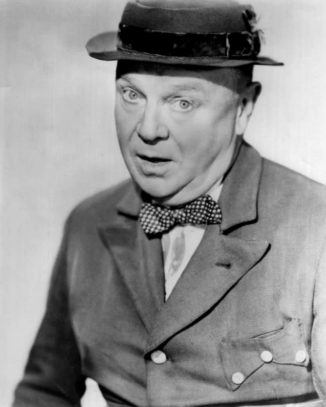 Photo of Benjamin Francis "Whitey" Ford, AKA the Duke of Paducah. Ford was a comedian, musician and radio and television personality who was a member of the Grand Ole Opry for many years.